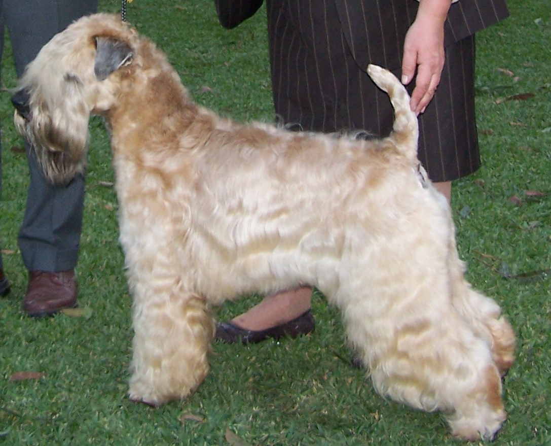 Australian Grand Champion Dancestar Zero O Seven. "Bondy".